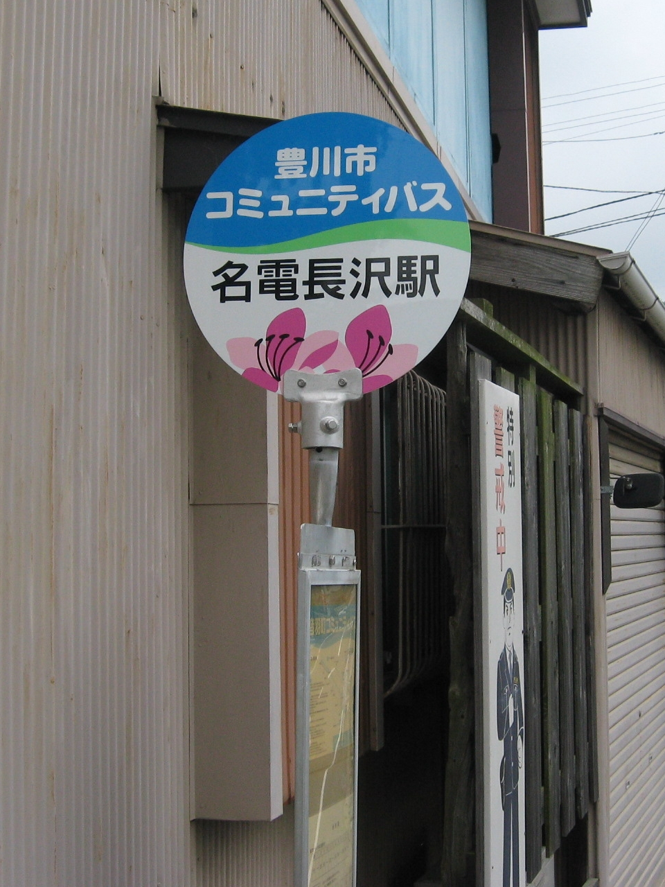 Bus stop sign of Toyokawa City Community Bus (at Meiden Nagasawa Station)